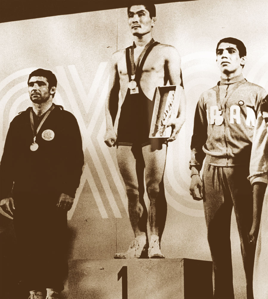 1968 Olympics, 63 kg freestyle wrestling podium